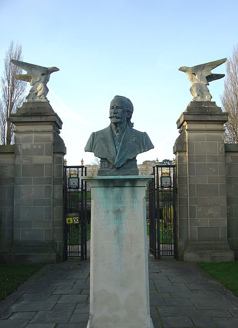 Jesse Boot memorial This is the memorial at the entrance to Highfields Park. The inscription reads: Our great citizen Jesse Boot, Lord trent Before him lies a monument to his industry, behind, and everlasting monument to his benevolence. The bust faces out towards the Factory that he built on the outskirts of Beeston, while behind him lie Highfields Park and the University, both of which were the result of his gifts.